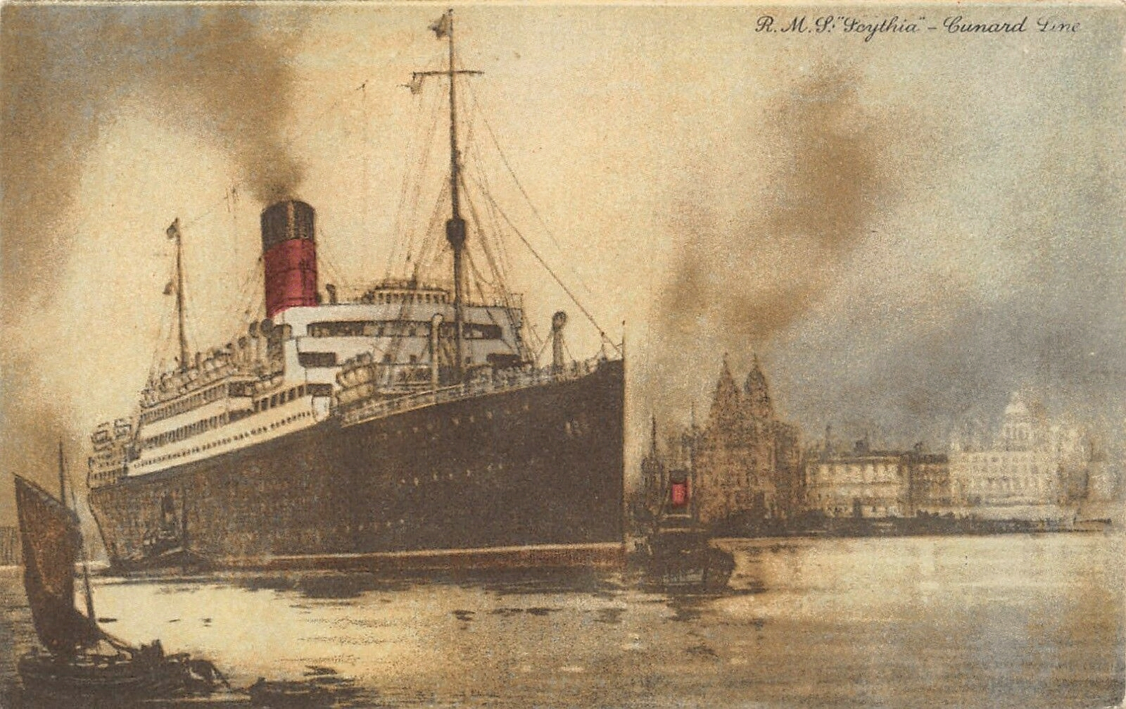 Postcard of RMS Scythia at Pier Head, Liverpool